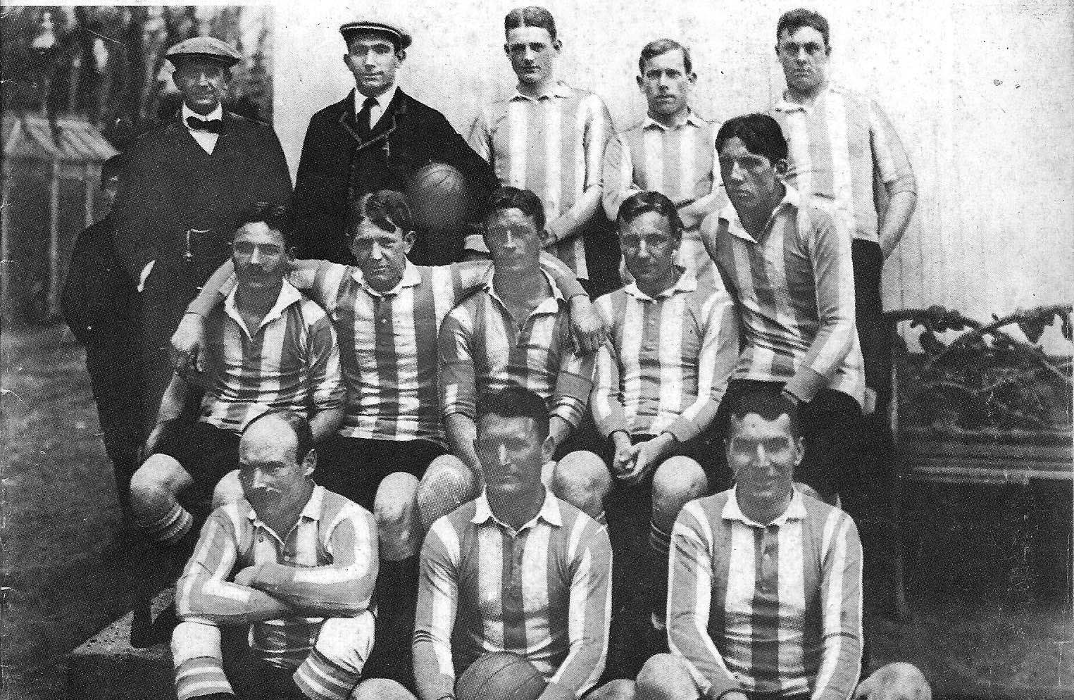 The Argentina national football team that played v. Uruguay in Copa Newton. It was the first time the national team wore the light blue and white striped jersey. Men posing are (up): Official, Referee, Murphy, C. Wilson, J. Dodds Brown (middle): G. Weiss, Alfredo Brown, A. Watson Hutton, Eliseo Brown, M. Susan; (down): Ratcliff, Ernesto Brown, P. Browne.